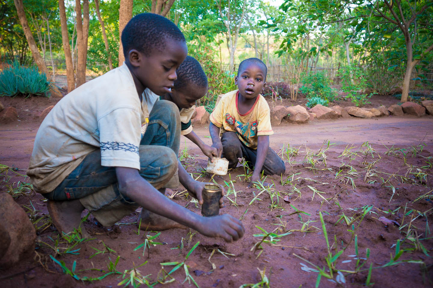 These Mozambican boys from the Yawo tribe collect flying termites This is an image of food from Mozambique